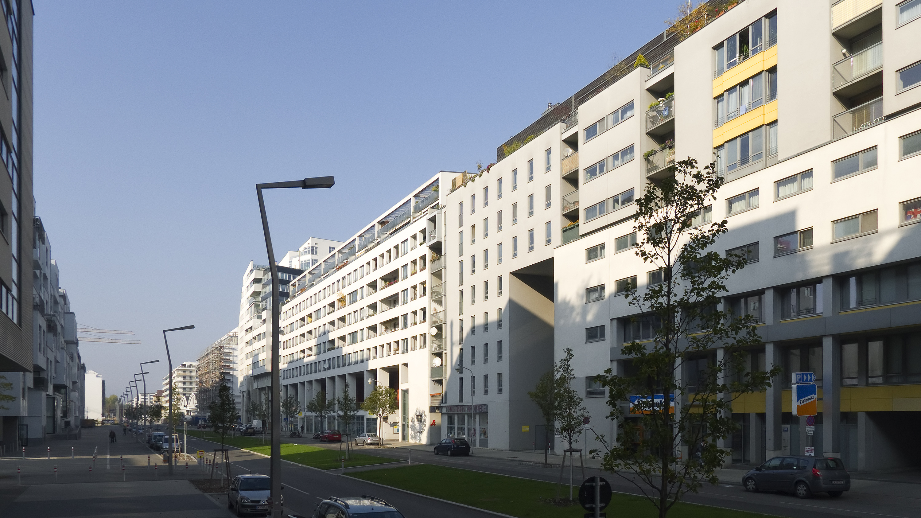 Residential area Nordbahnhofgelände in Vienna 2